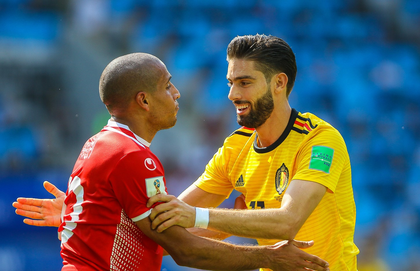 Yannick Ferreira Carrasco, Wahbi Khazri